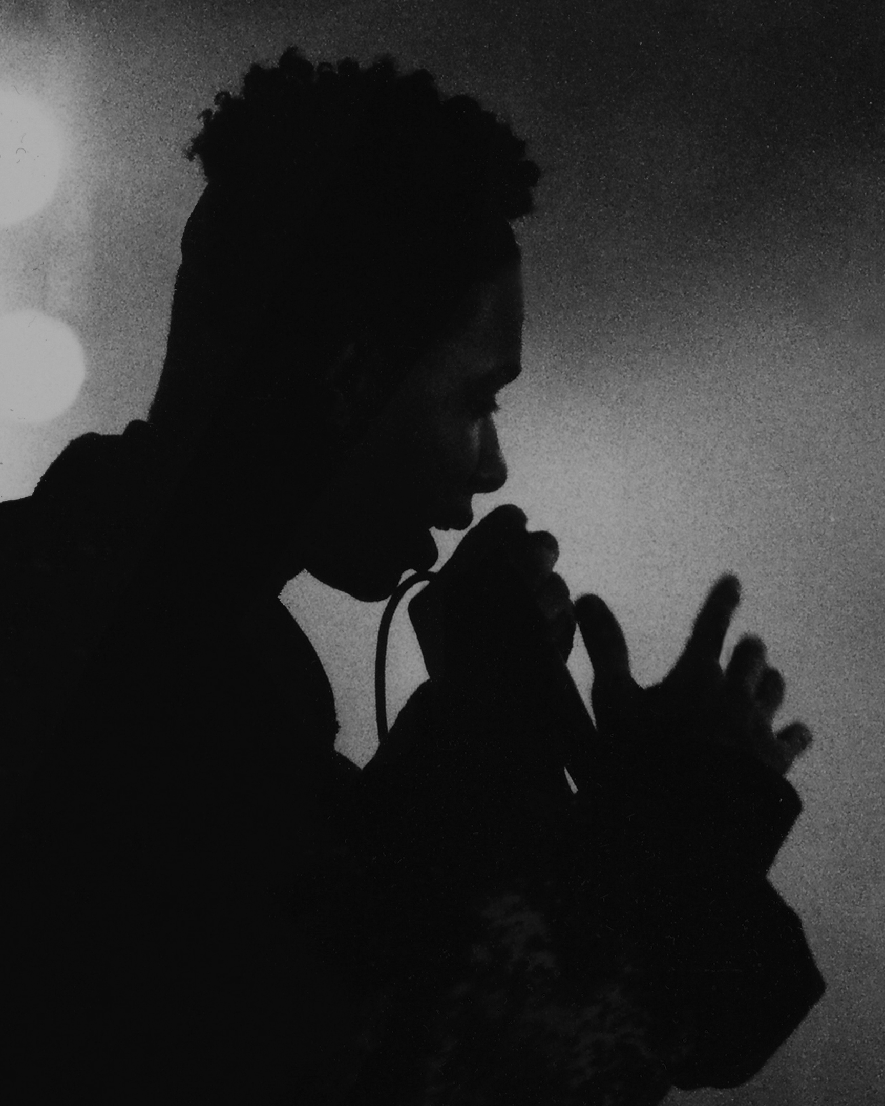 Cape Verdean Portuguese rapper Boss AC performing in Lisbon, Portugal in 1994. Originally from the Portuguese-language island nation of Cape Verde, Boss AC is considered one of the founding fathers of Portuguese hip hop, or Hip Hop Tuga. Here shown doing a live performance at an early hip Hop Tuga festival in Bairro Alto (Lisbon, Portugal). Photograph by Ithaka Darin Pappas.